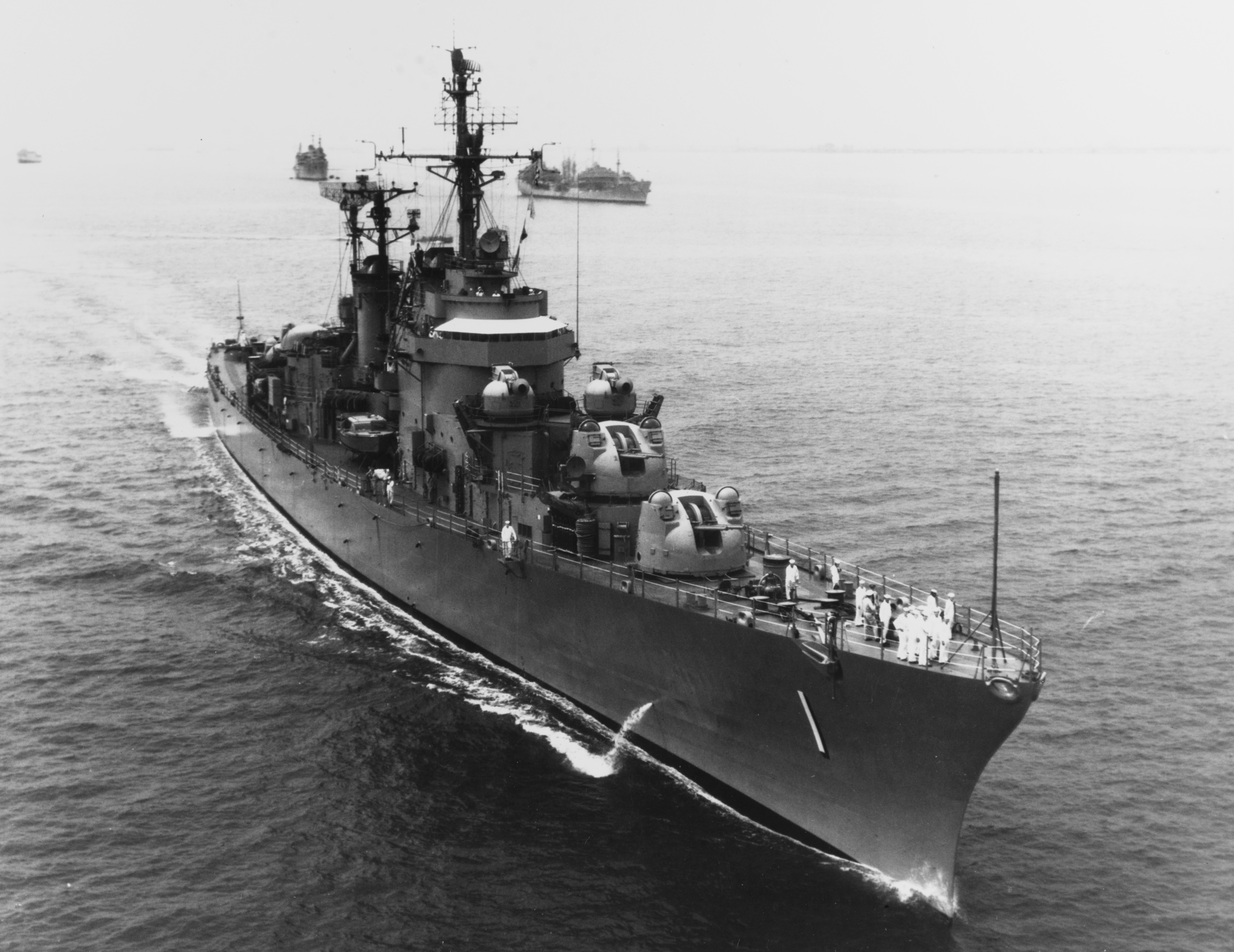 The U.S. Navy destroyer leader USS Norfolk (DL-1) underway in Hampton Roads, Virginia (USA), on 6 September 1955.